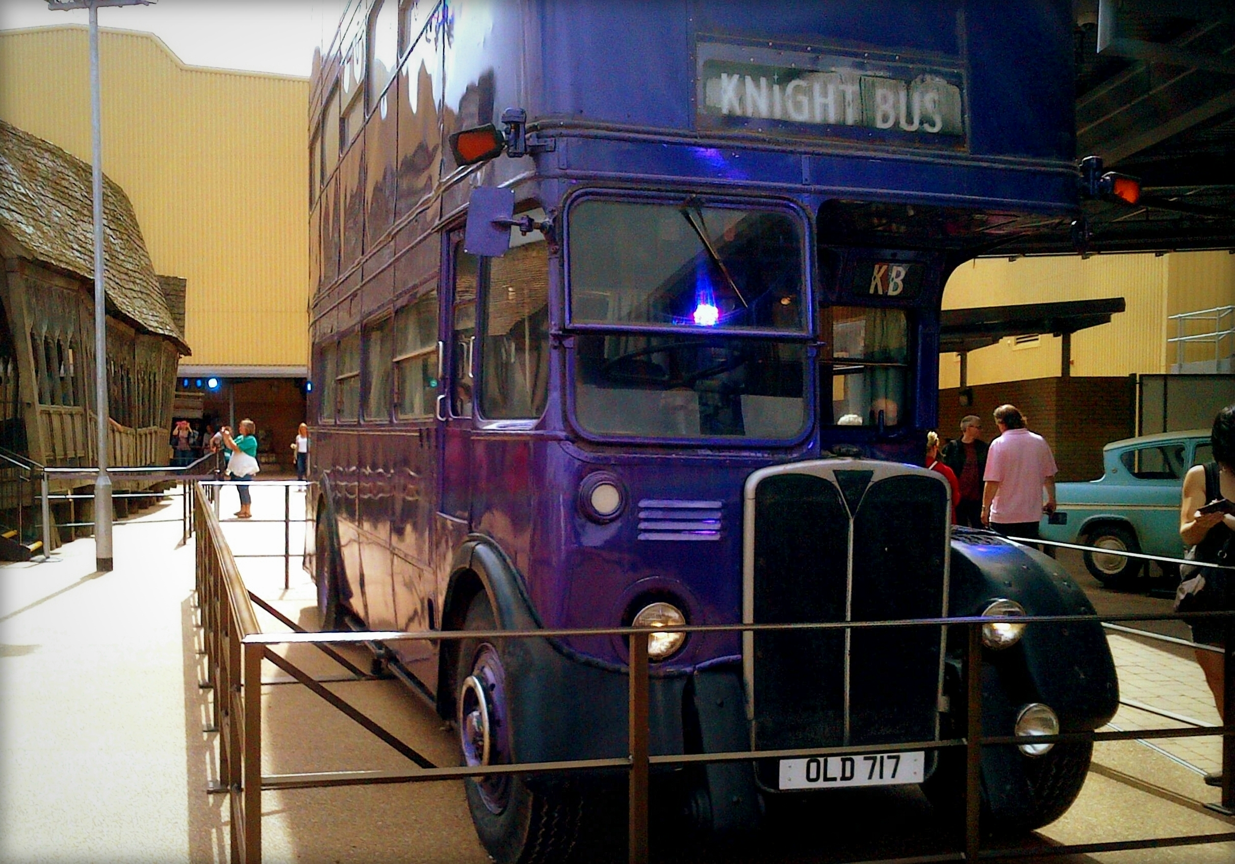 The Knight Bus is a purple triple-decker, specially modified AEC Regent III RT bus, used in the Harry Potter film series at Warner Bros. Studios, Leavesden, UK